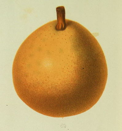 De Prêtre, Caloet... (pear).